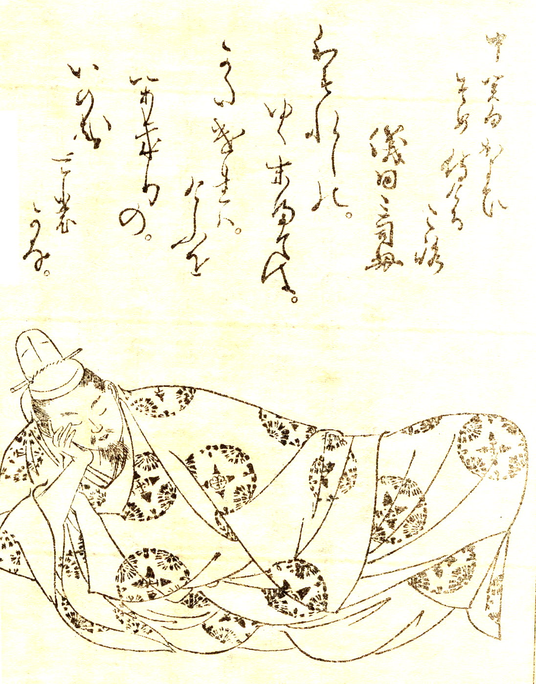 Fujiwara no Michitaka (藤原 道隆) was a Japanese noble of the Heian period.This picture was drawn by Kikuchi Yosai（菊池容斎）who was a painter in Japan.